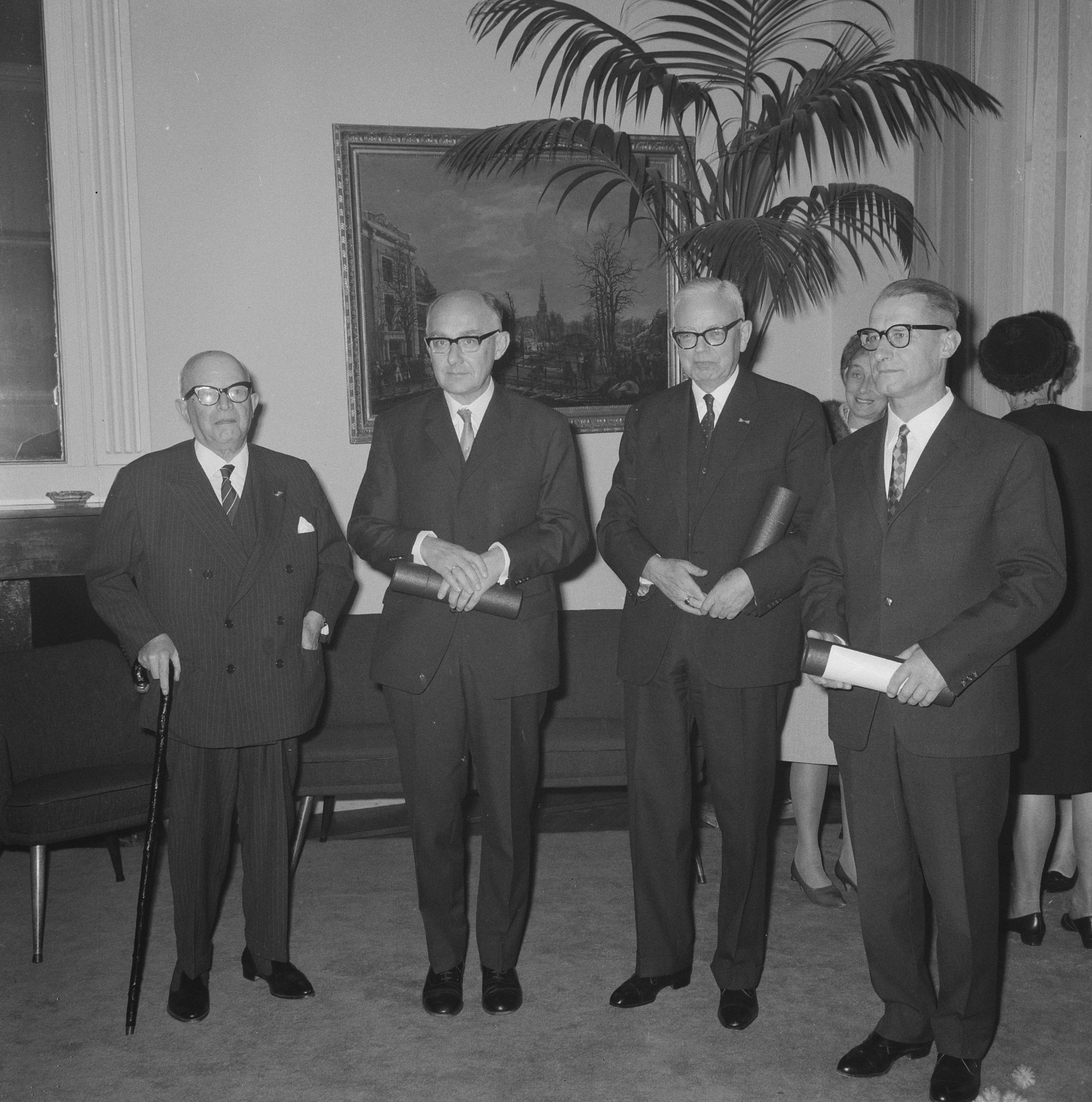 Uitreiking van de Dr. Saal van Zwanenbergprijzen 1965, die eenmaal in de twee jaar worden uitgereikt voor een bijzonder wetenschappelijk oeuvre op het gebied van de farmacotherapie V.l.n.r. dr. Saal van Zwanenberg en de winnaars dr. G.A. Overbeek, dr. E.H. Reerink en professor dr. E. Havinga die de prijs wonnen voor hun werk op het gebied van fotochemie, farmacologie en toegepaste chemie van geneeskrachtige steroïden Datum 8 november 1965